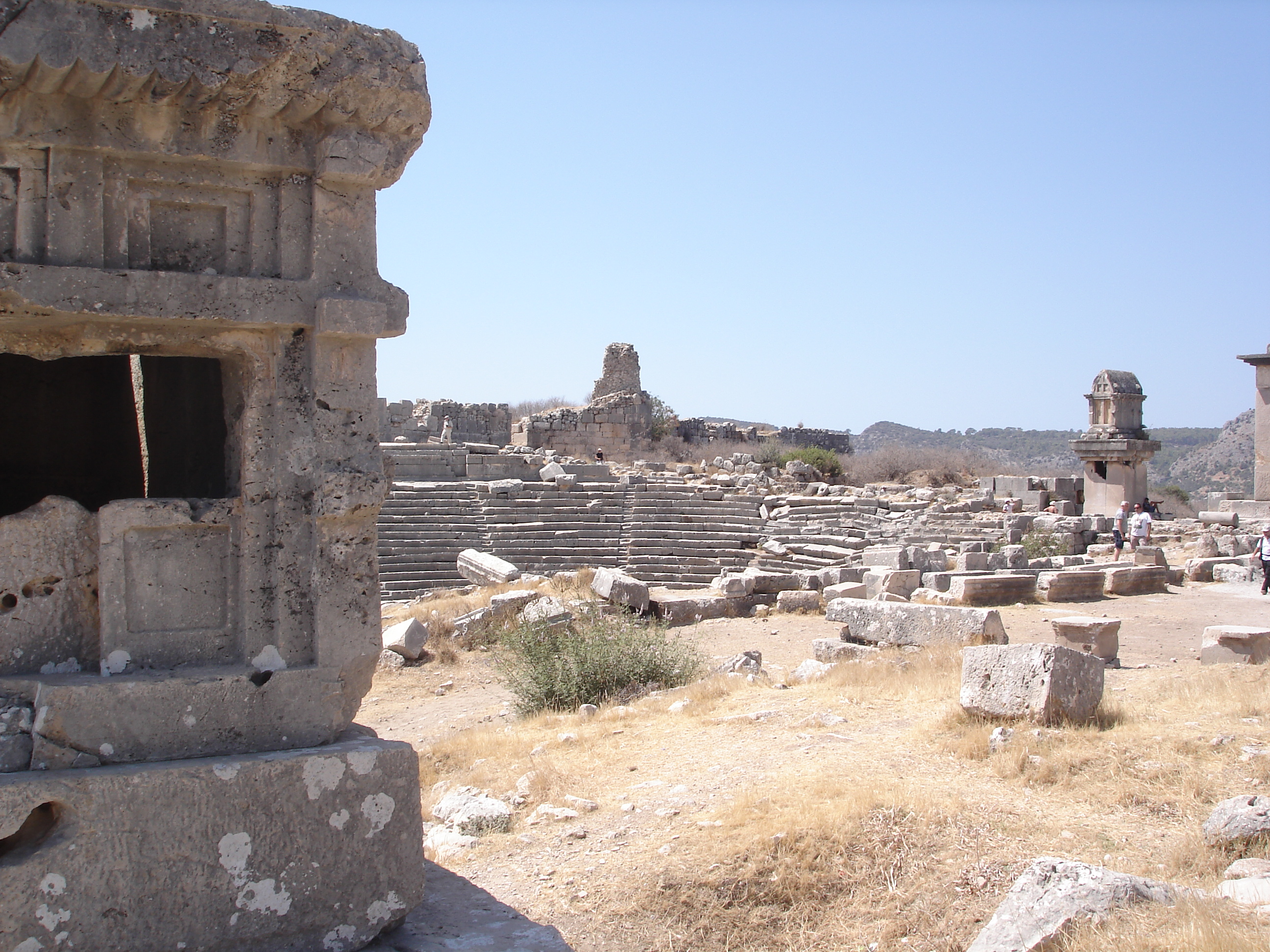 Xanthos ruins